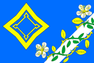 Flag of Ternovskaya, Tijoretsk Raion, Krasnodar Krai, Russia